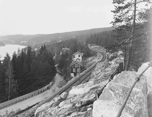 Østfoldbanen at Ljan, Oslo, Norway.